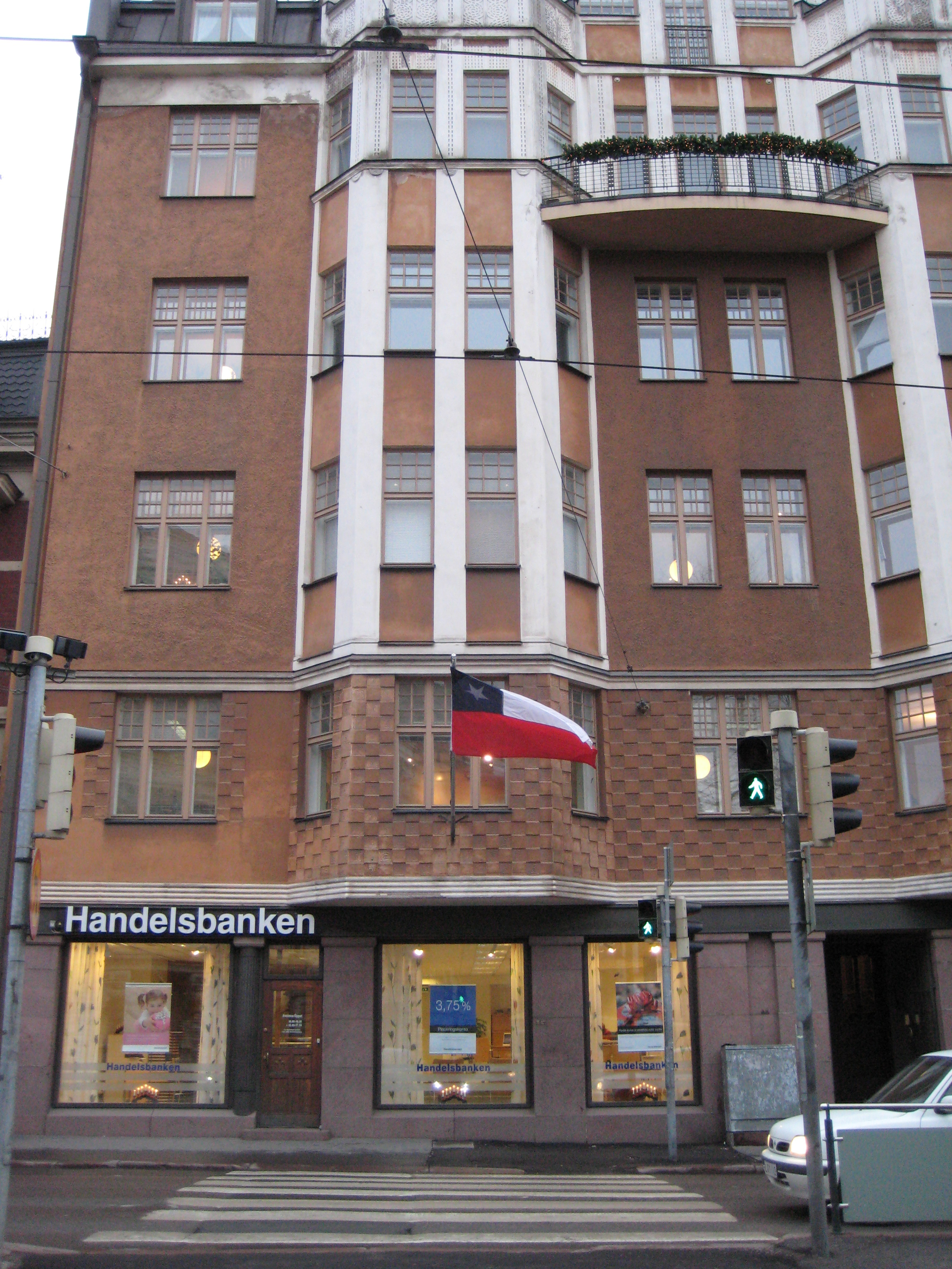 Embassy of Chile in Helsinki, Finland, concurrent in Estonia